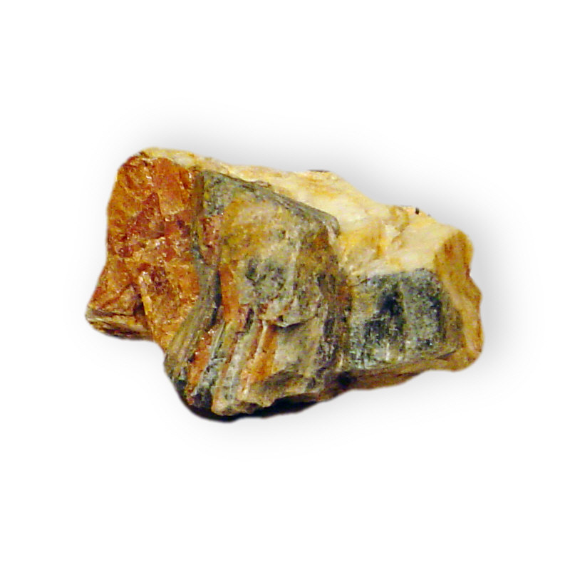 These mineral images are free to use how you wish.